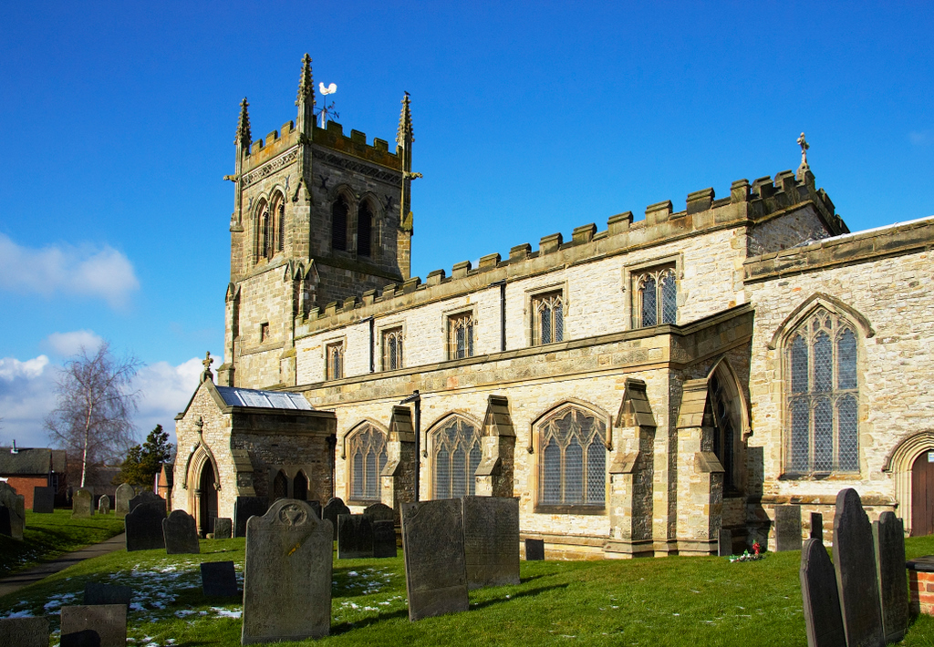 (St Mary)The large churchyard of this prosperous village contains a very fine collection of Swithland slate headstones (the great majority of which face east,so best seen before noon).